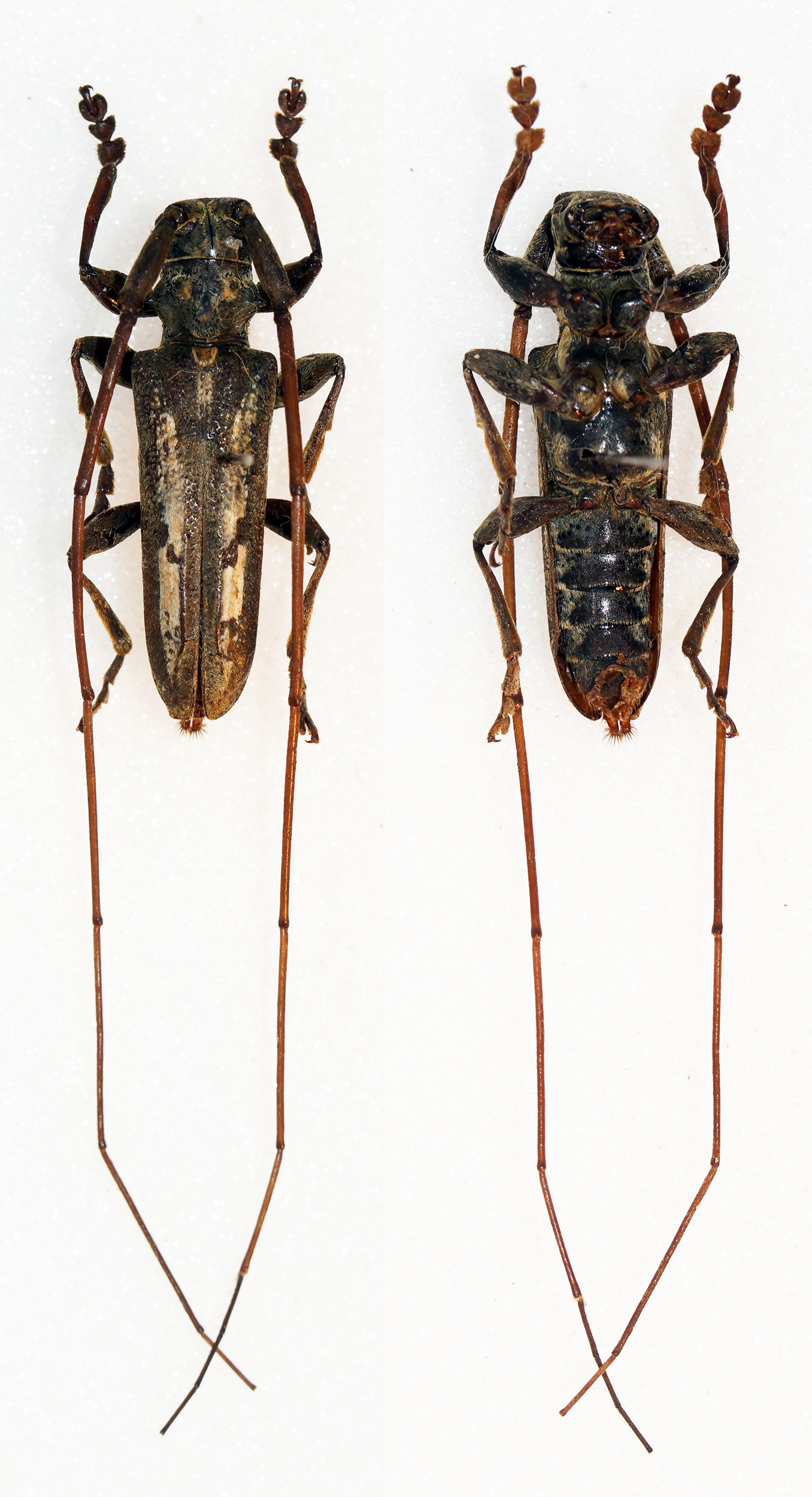 Pic,1925 Sex: Male Data: 29-04-93 - Tam Dao 1600m - North Vietnam Size: 19mm